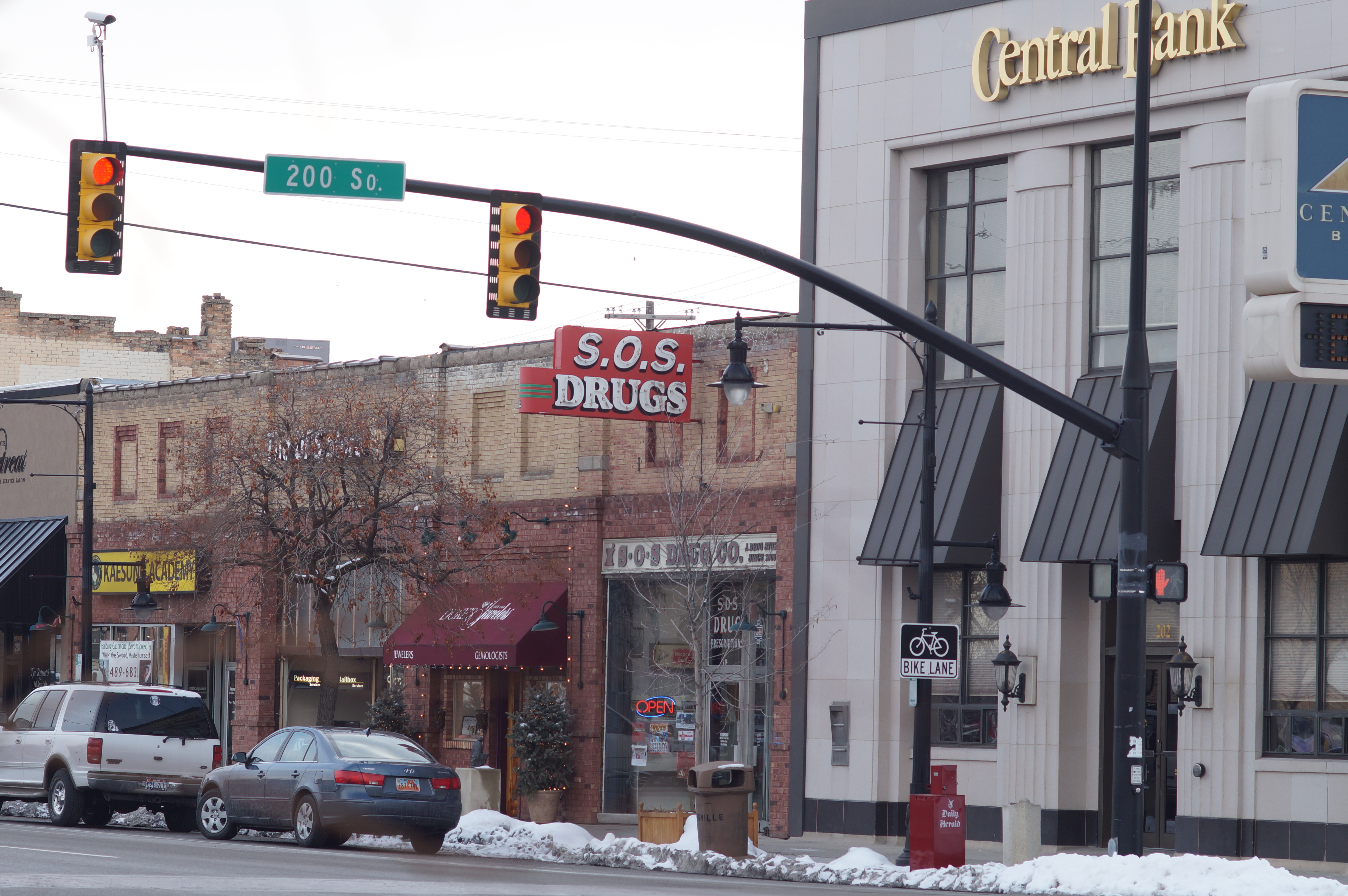 A section of Springville, Utah Main Street showing the Central Bank and nearby buildings